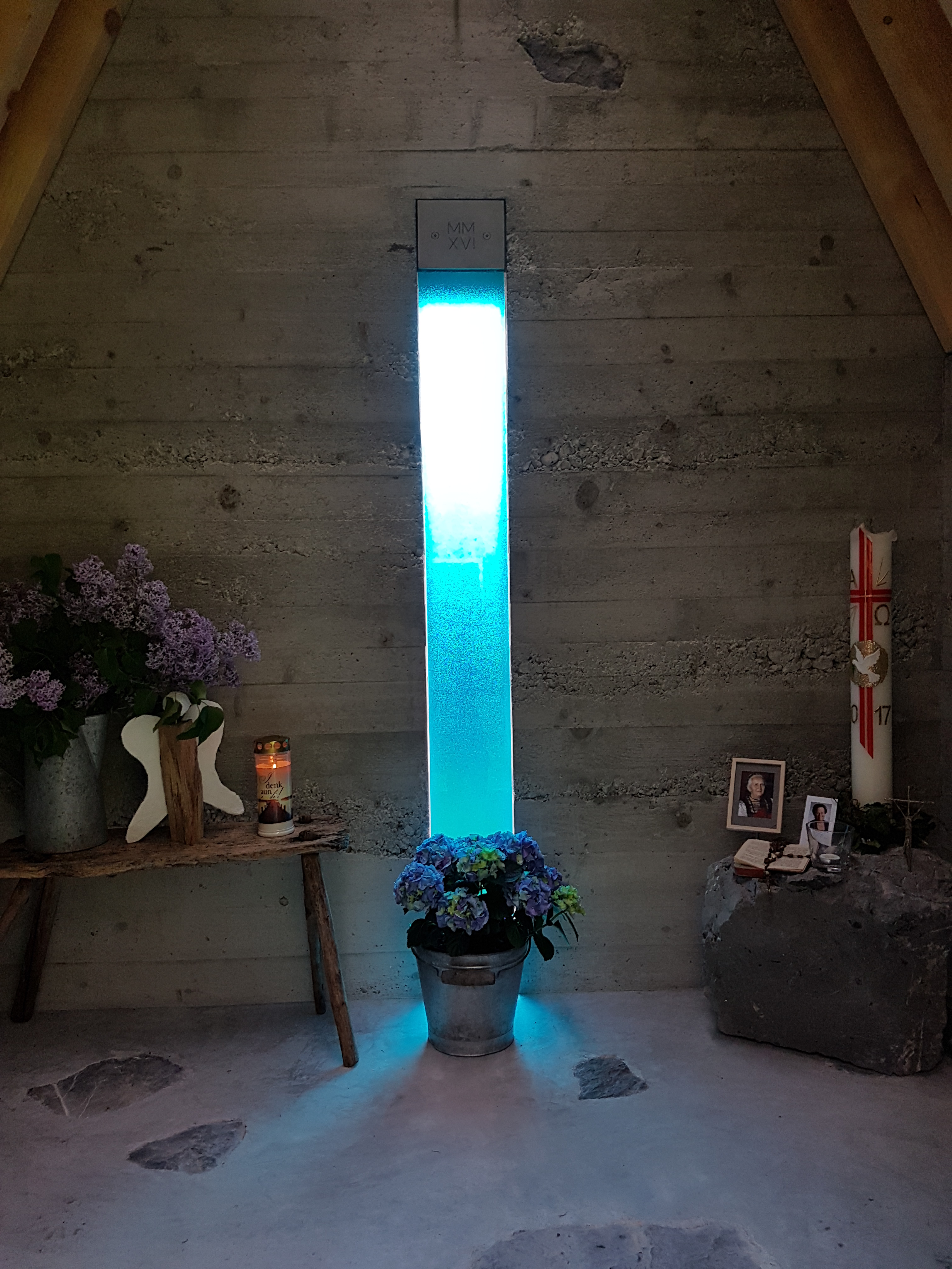 Moutain chapell Wirmboden in Schnepfau, Vorarlberg, Austria. 920 masl, rebuilt after an avalanche in 2016. Altar.